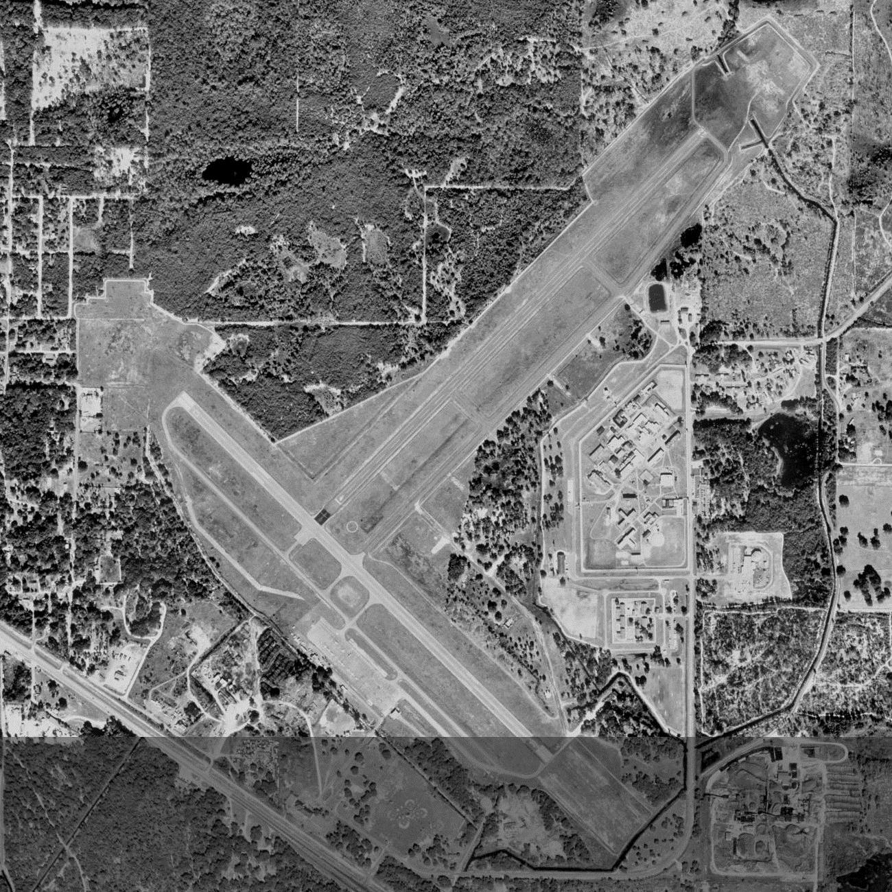 USGS digital orthophoto of Cross City Airport in Cross City, Dixie County, Florida, United States